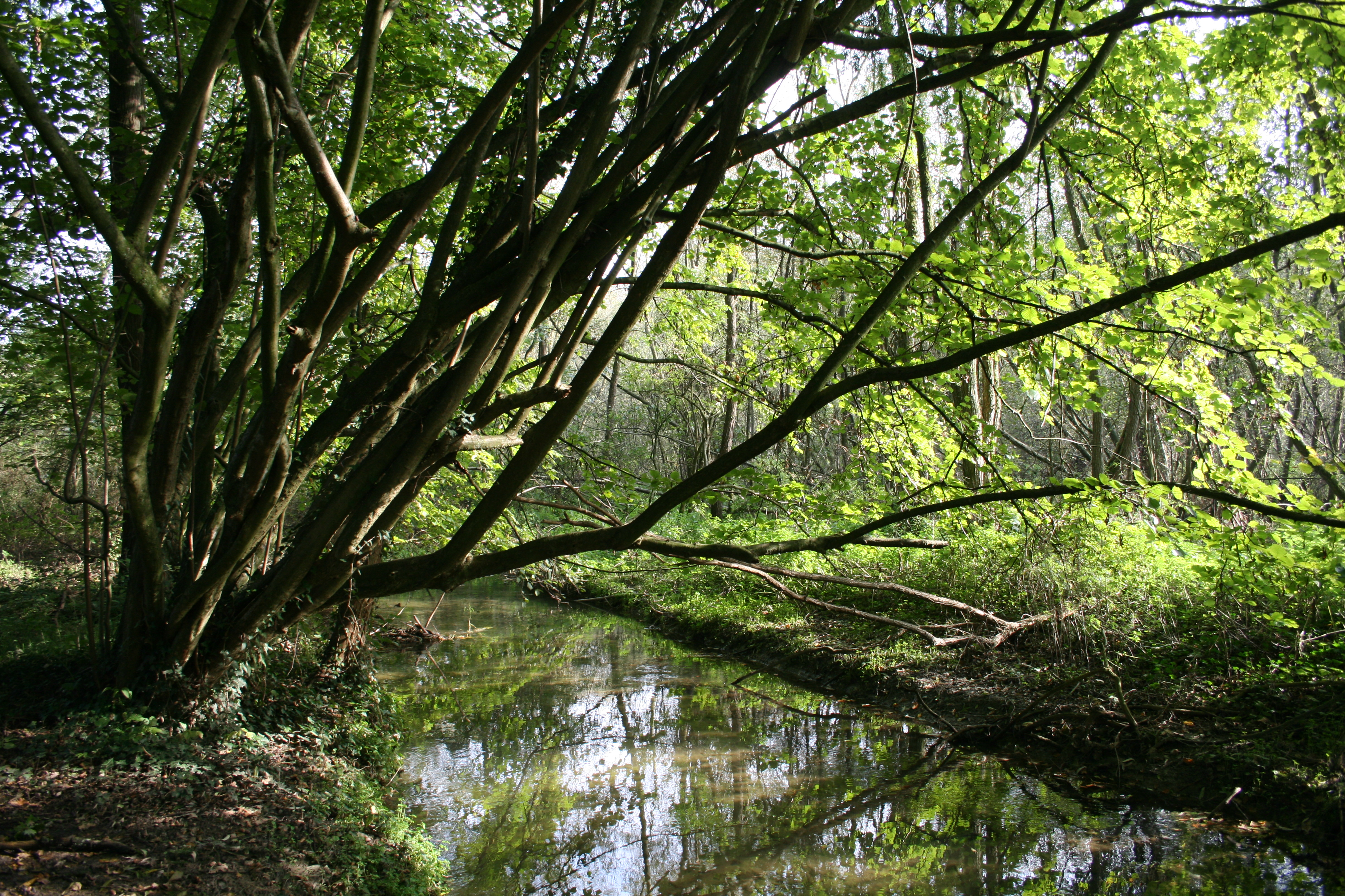 La Hulpe (Belgium), the Argentine brook in the park of the domaine Solvay.